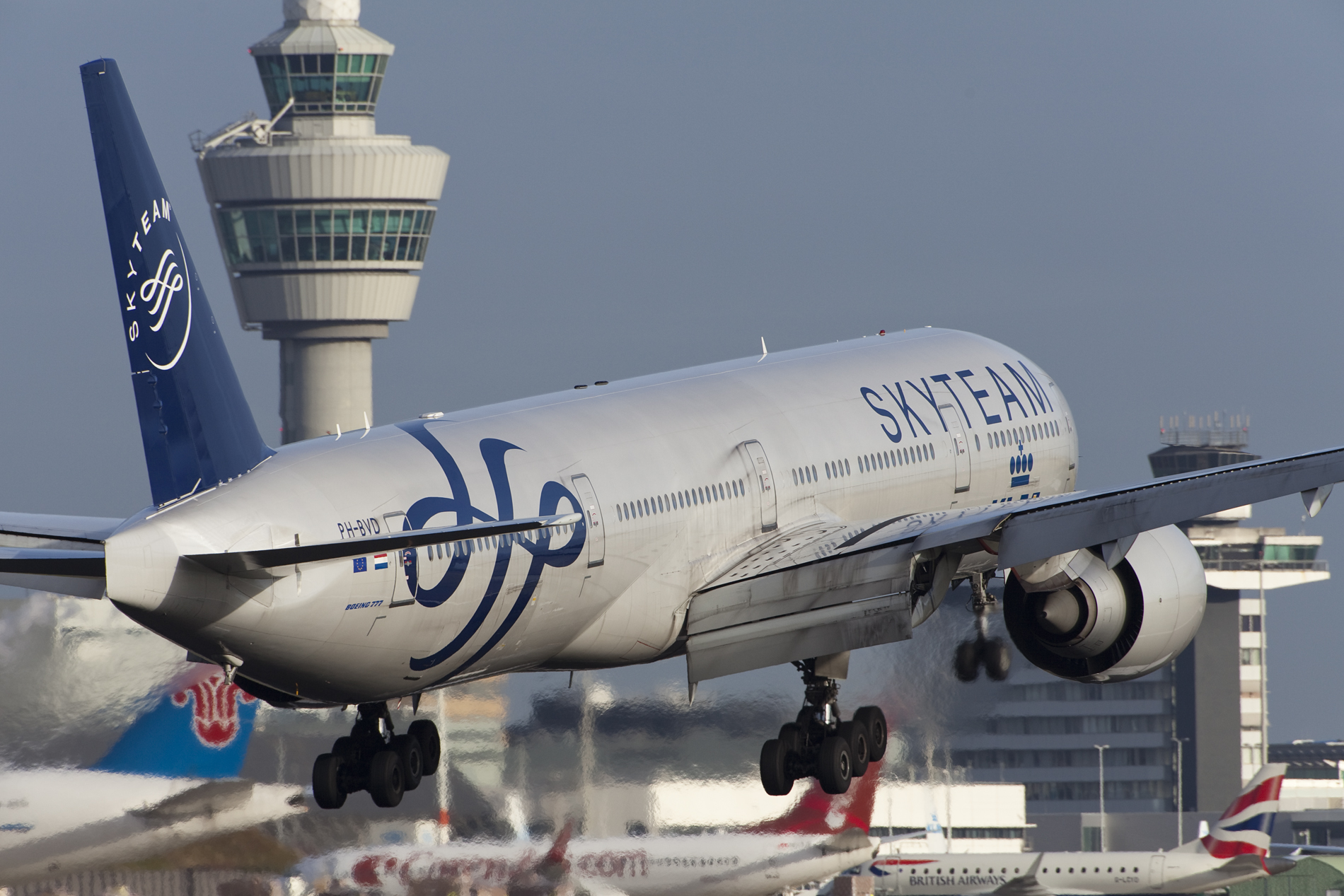 Schiphol Old & new tower